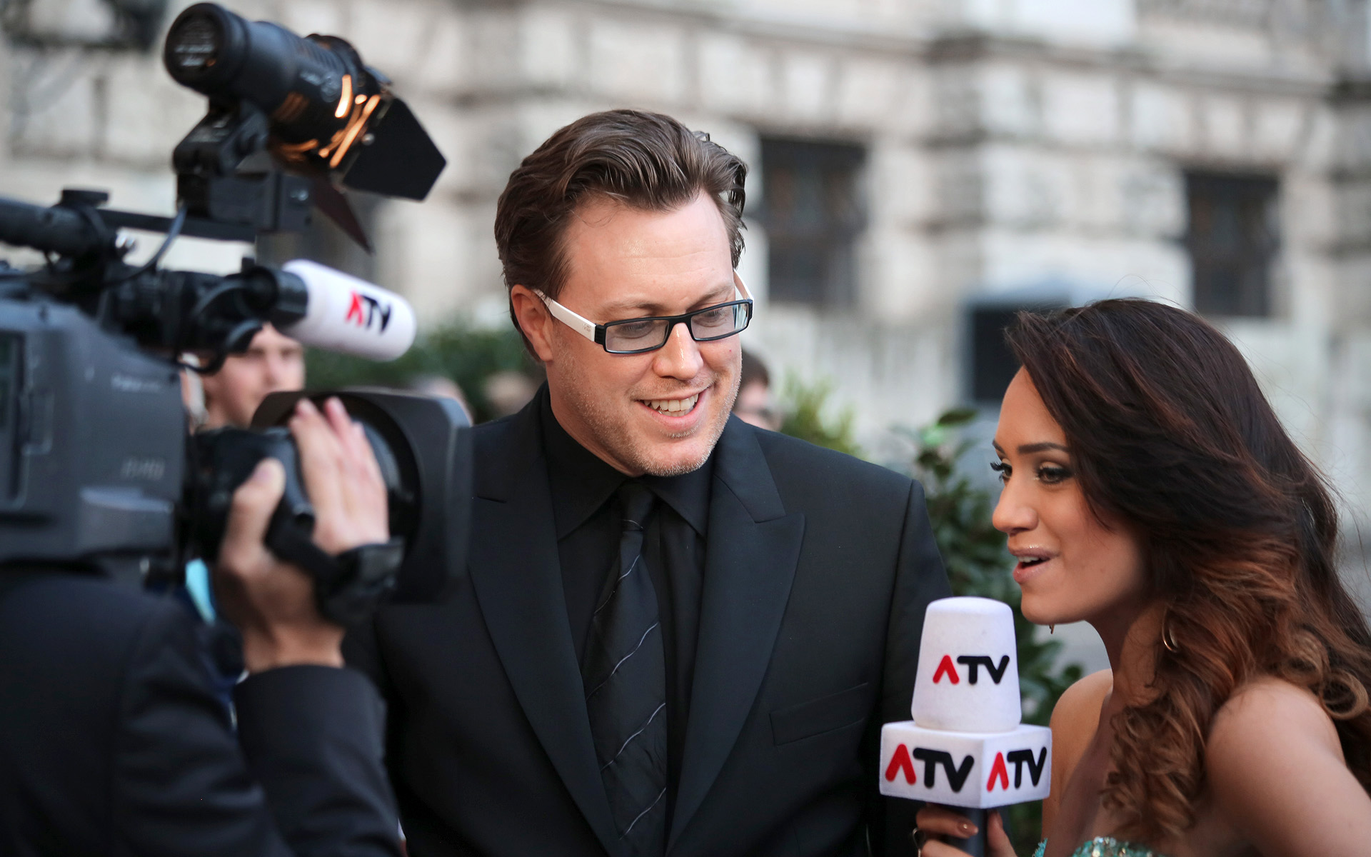 Nicholas Ofczarek, interviewed by Sasa Schwarzjirg for ATV, at the Romy film awards (Hofburg Imperial Palace in Vienna)